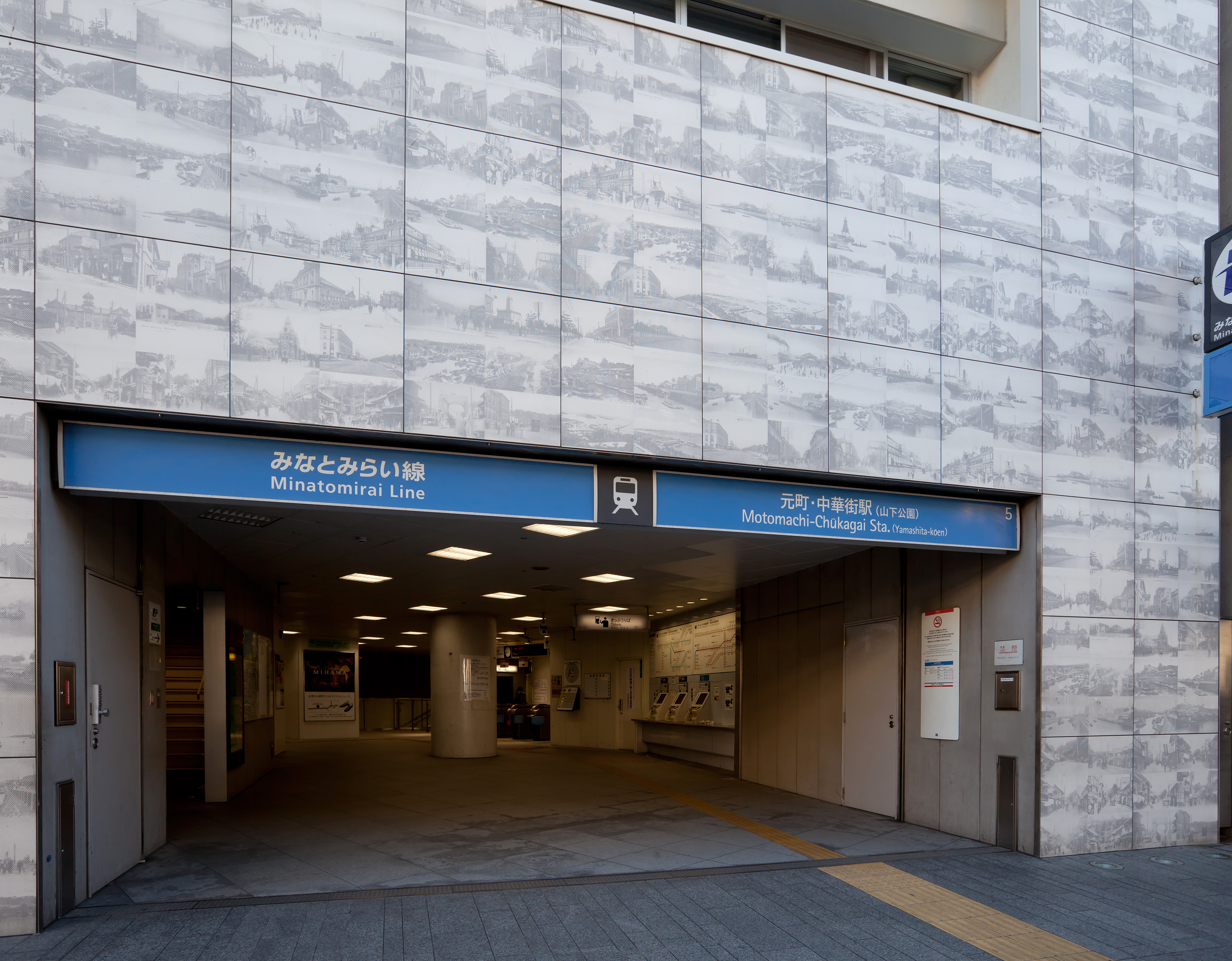 Motomachi-Chūkagai Station Exit 5